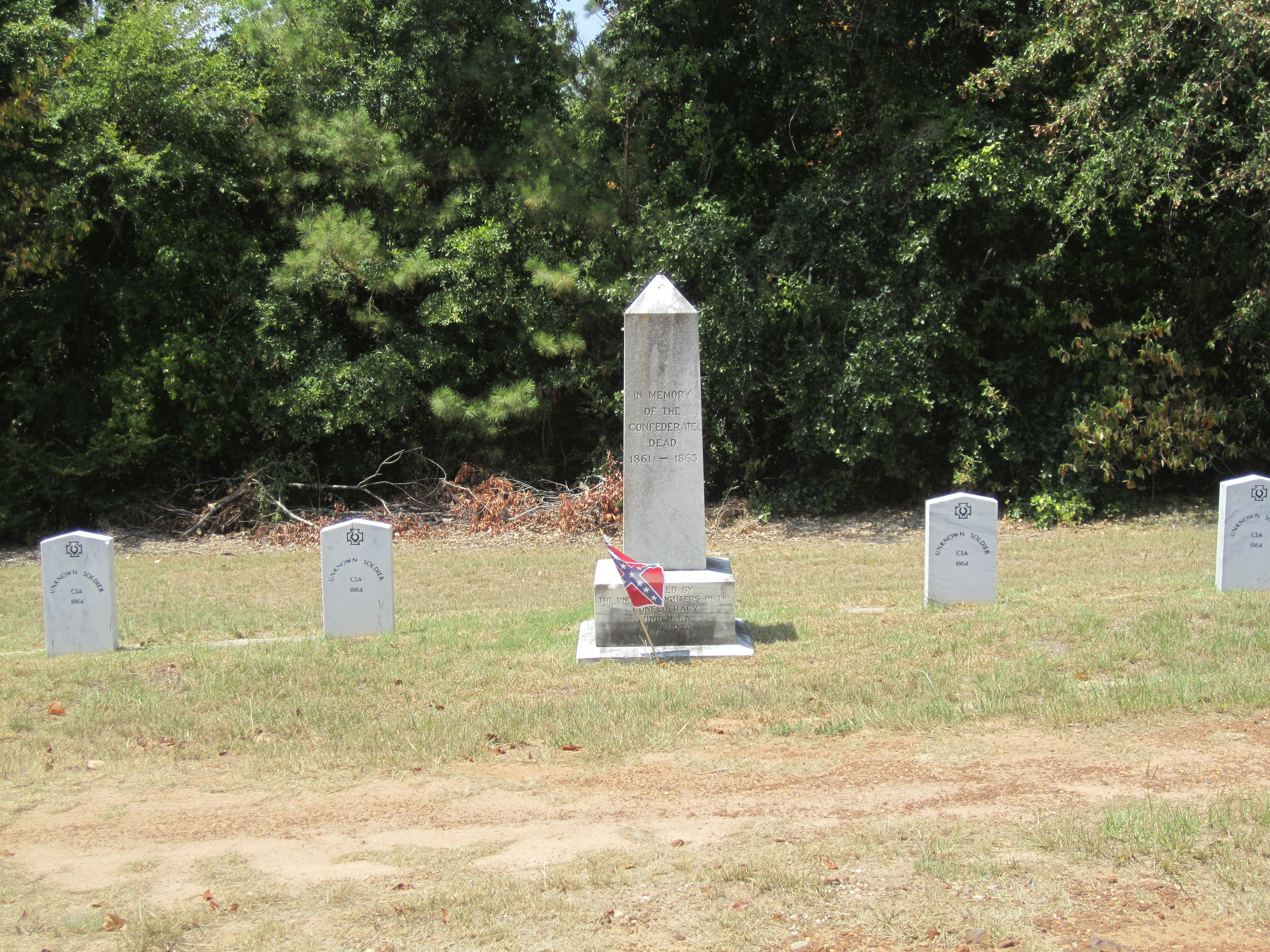 I took photo of Confederate nomument at Minden, LA, Cemetery, using Canon camera.